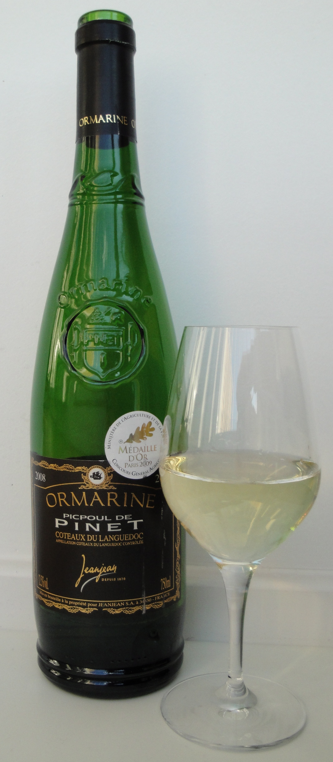 Picpoul de Pinet Ormarine Carte Noire, a wine from Languedoc (AOC Coteaux du Languedoc)